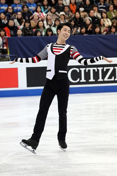 Jin Boyang at the 2017 World Championships - SP